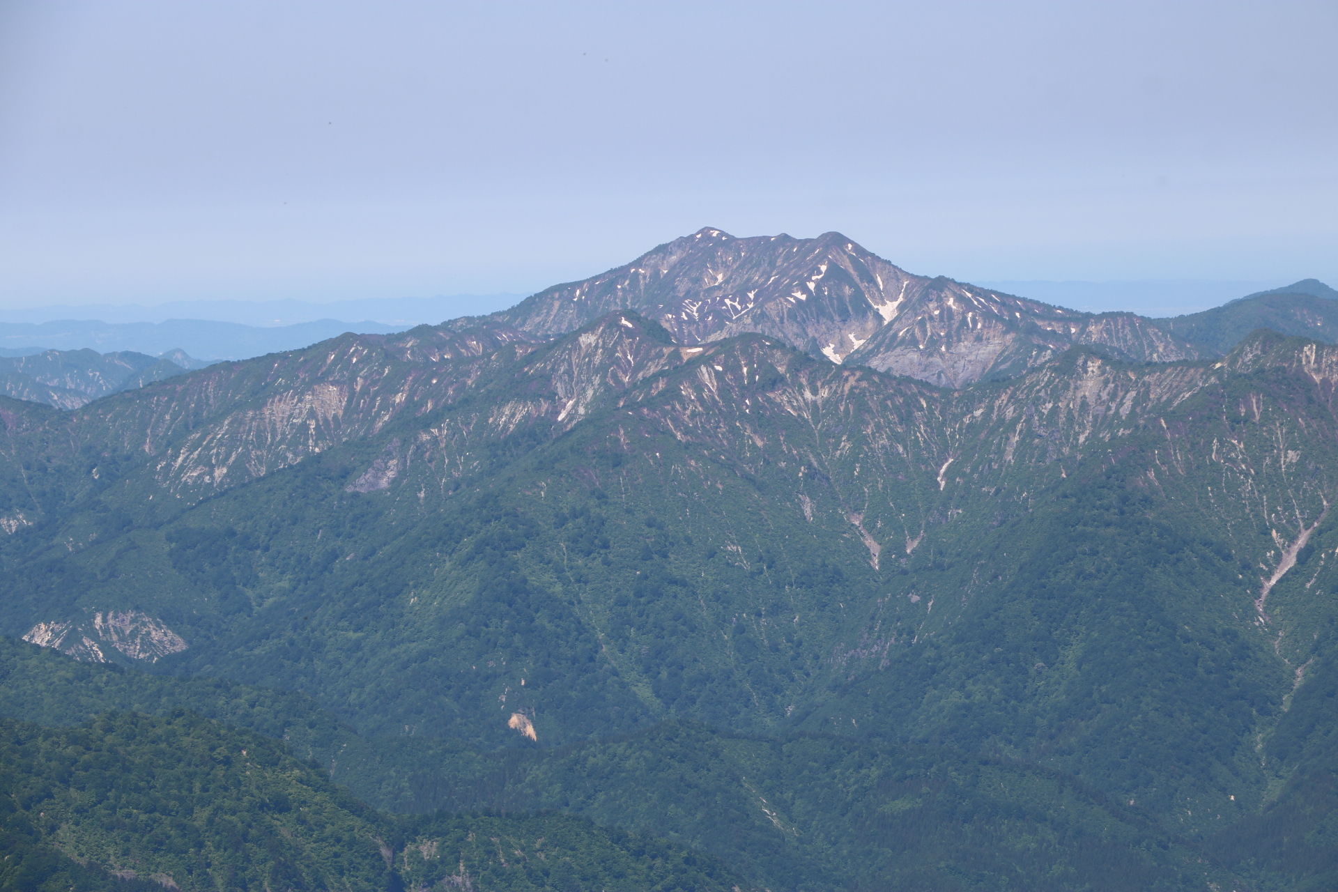 Yahazudake seen from the east. Taken from MIkaguradake.